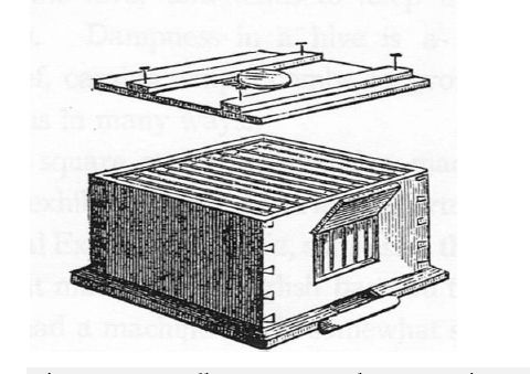 "Woodbury's Bar and Frame Hive with the Lid Elevated". The original hive was 14 1/2 inches square inside, 9 inches high and held 10 comb frames.